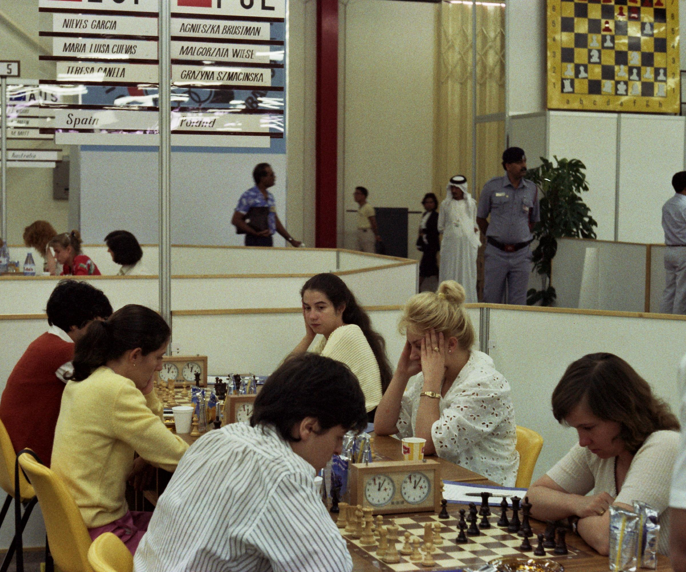 Spanien - Polen (Chess Olympiad 1986 in Dubai): Nievas Garcia - Agnieszka Brustman; Maria Luisa Cuevas - Malgorzata Wiese; Teresa Canela - Grazyna Szmacinska. Photographer Gerhard Hund.